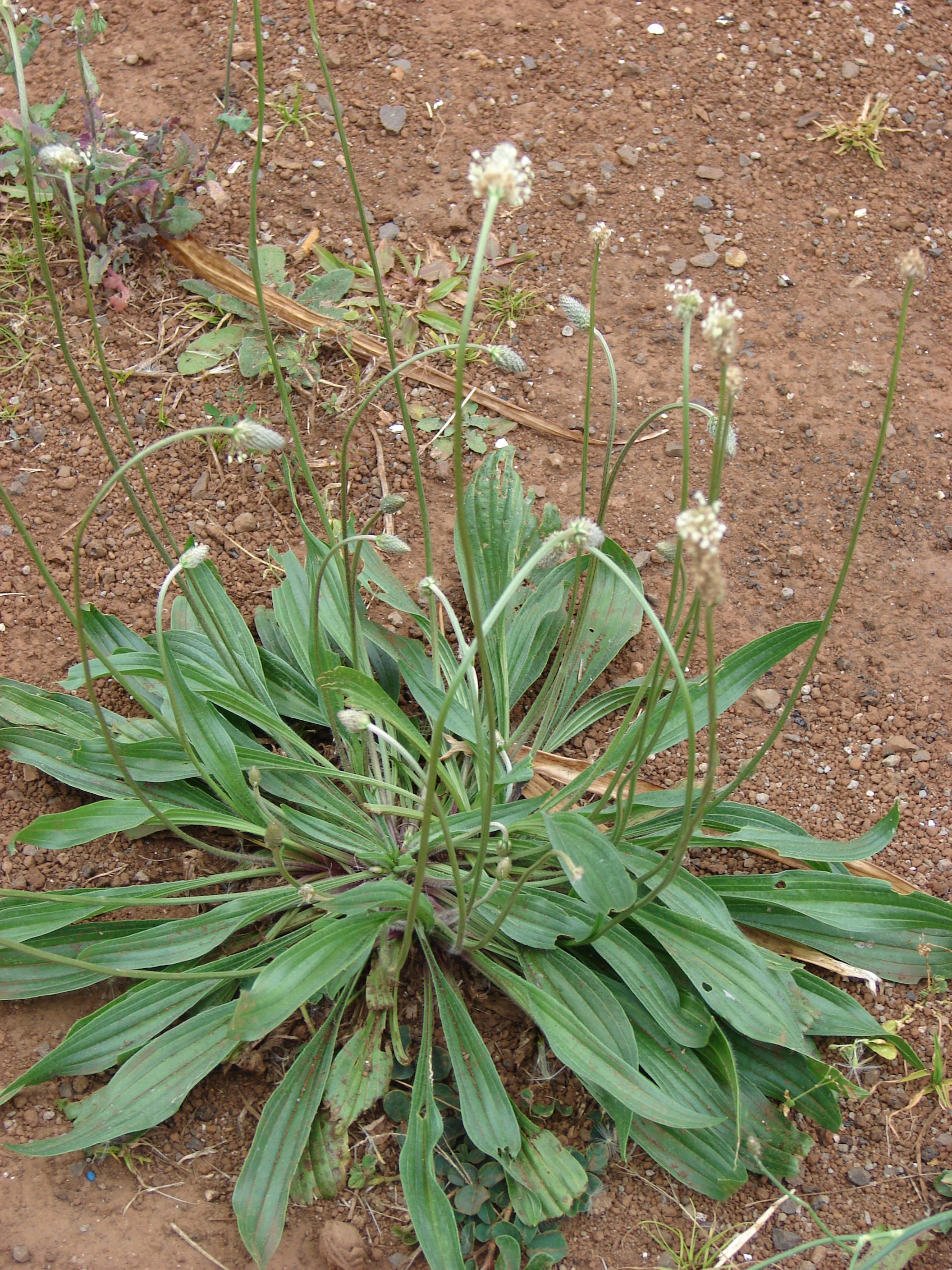 Plantago lanceolata (flowering habit). Location: Maui, Makawao